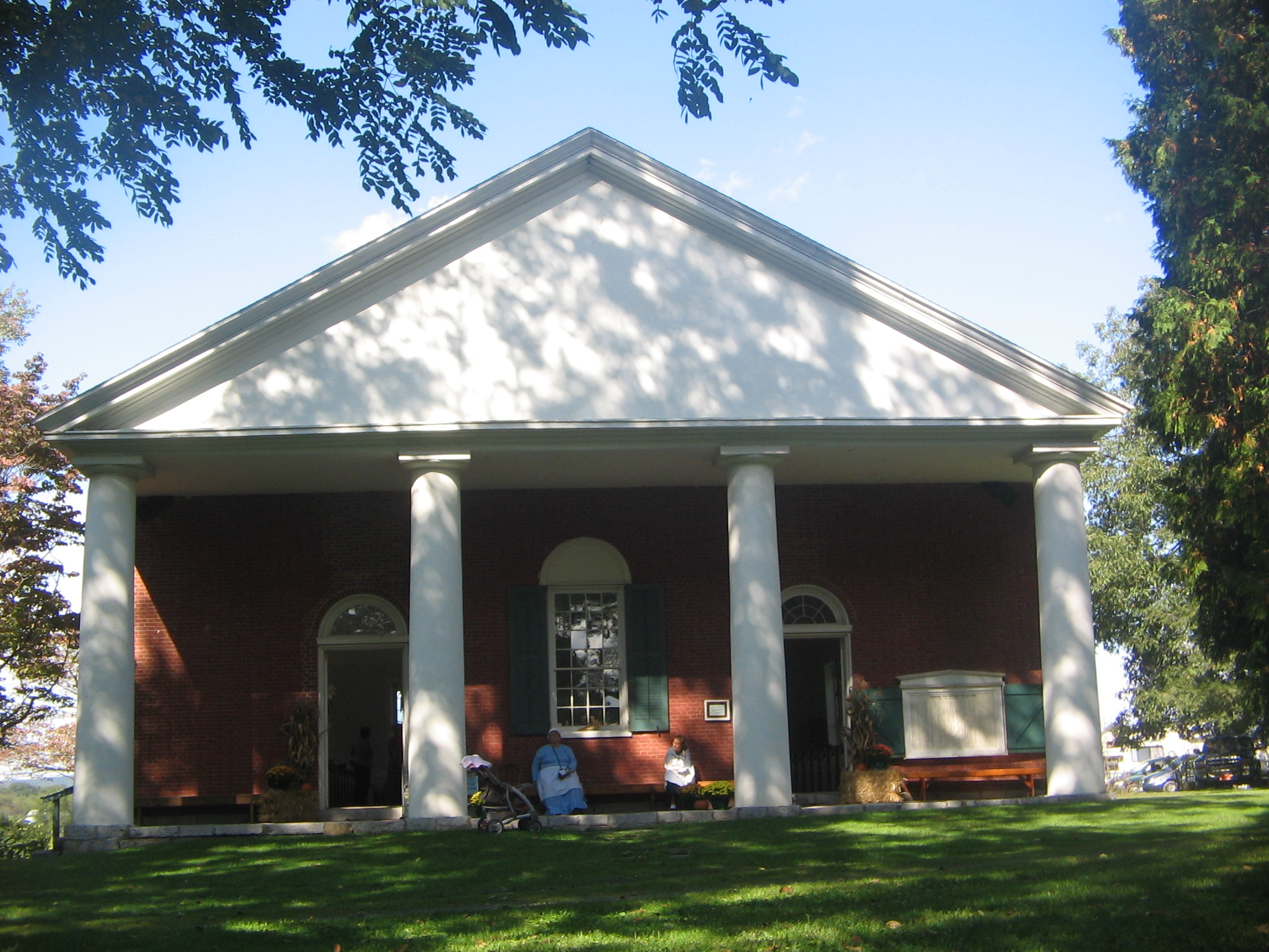 Warrior Run Presbyterian Church in Delaware Township, Northumberland County, Pennsylvania in the United States. Listed on the National Register of Historic Places